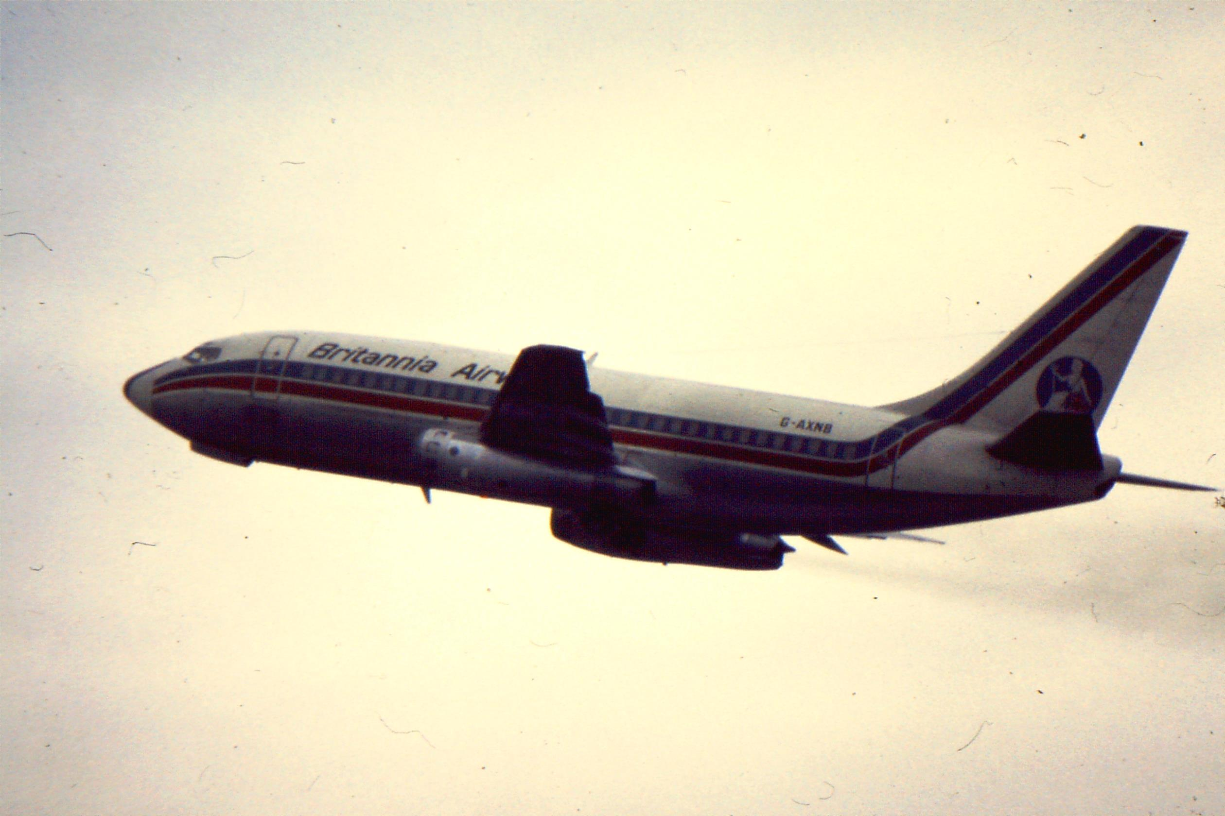 Sporting the old penny logo, this flight would have beeb operating to Palma from NCL in this picture, taken in the early 1970's at my local airport.